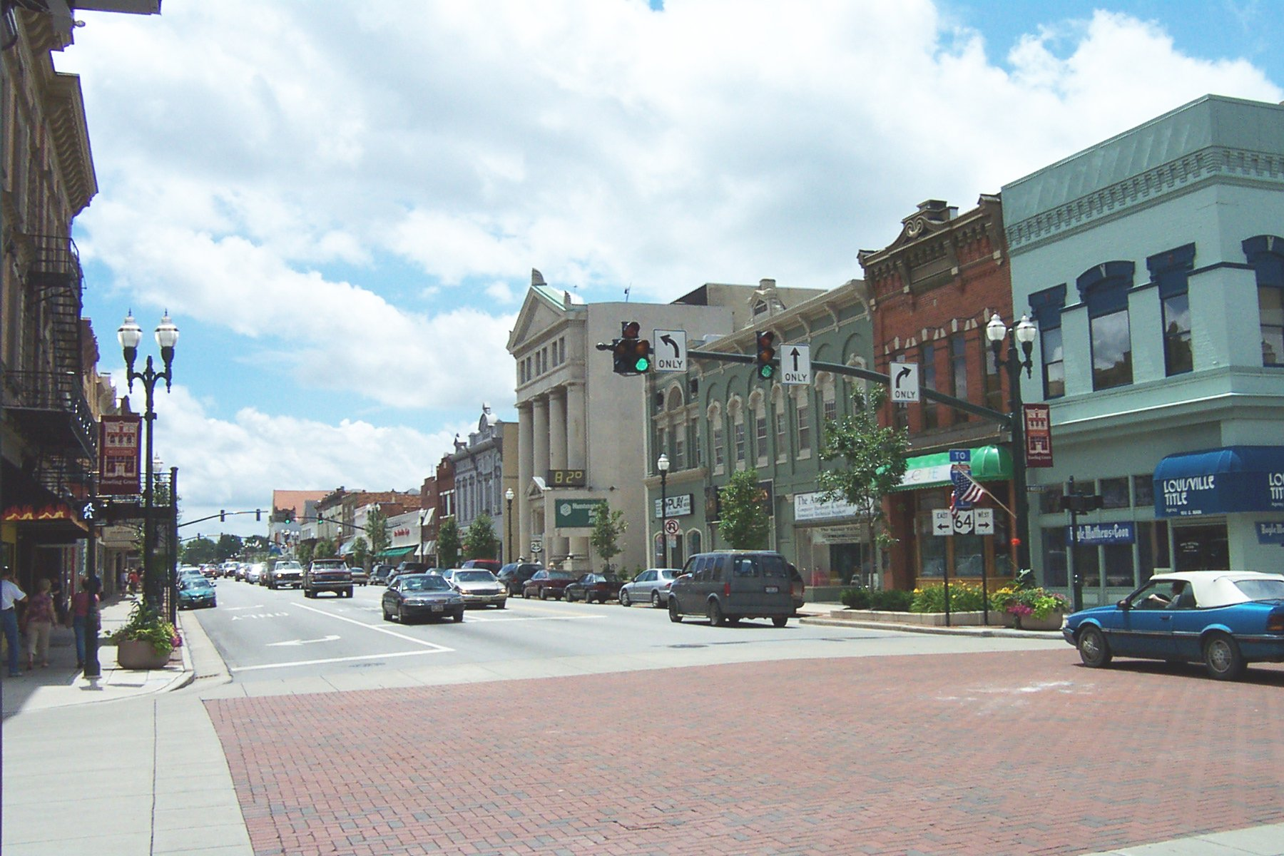 Photograph taken in Bowling Green looking southward down Main Street, at the intersection of Main and Wooster. On the right is Easystreet Cafe, the Huntington National Bank, Ace Hardware and Ben Franklin Crafts. On the left is the old Millikin hotel (converted into apartments). Photo taken by Wapcaplet in July 2003.